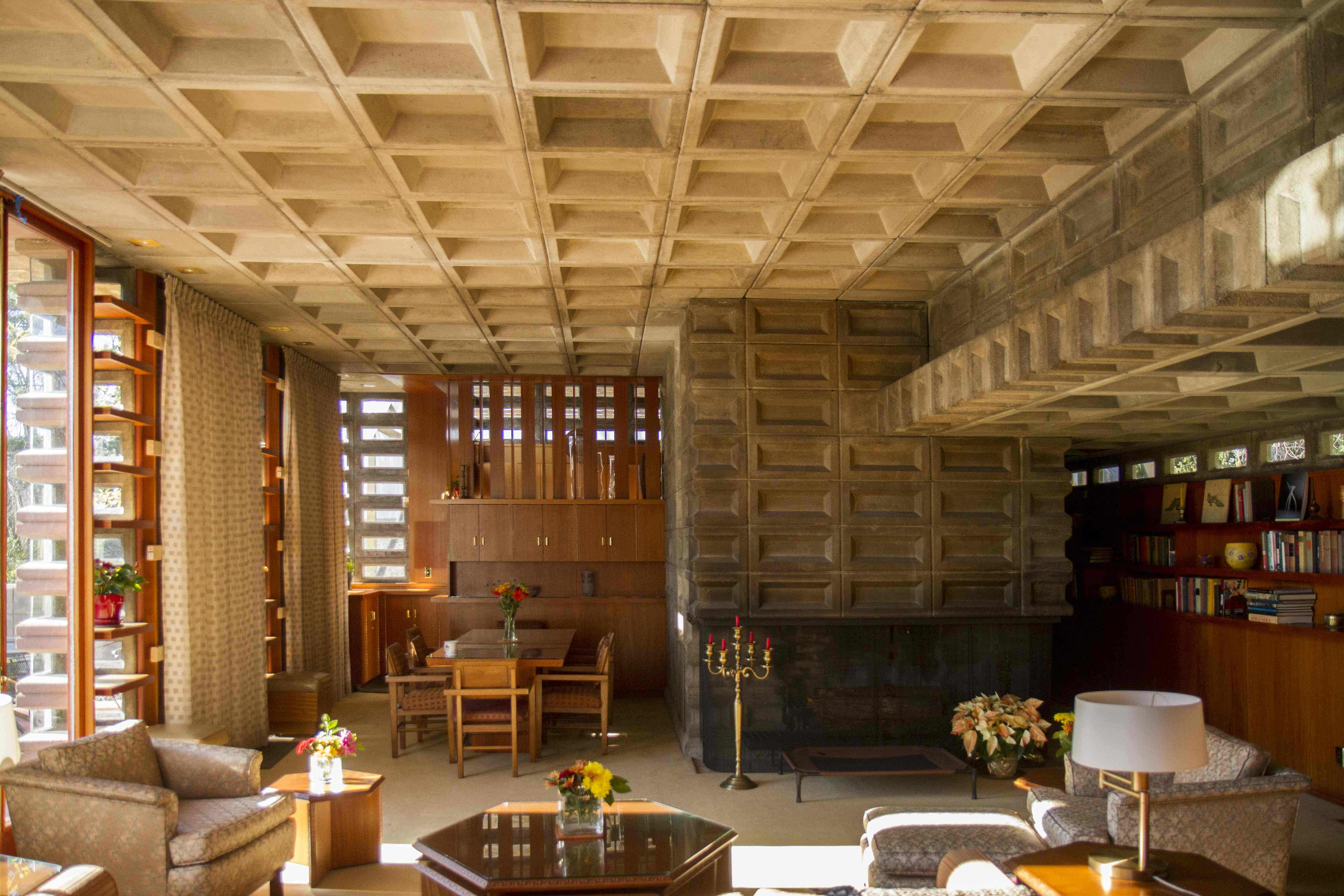 Great Room Toby Oliver